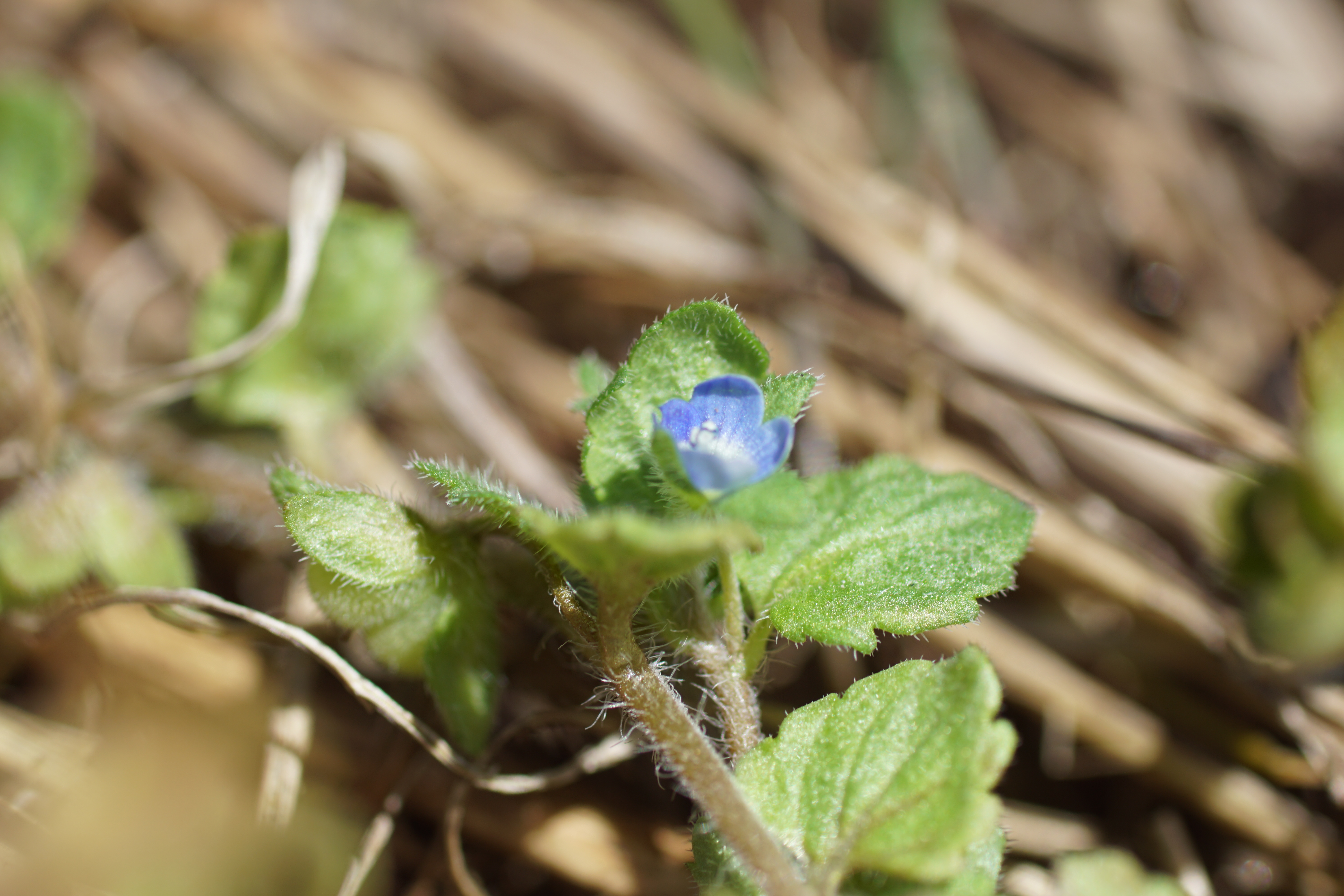 Plant species Veronica opaca in Solna, Sweden